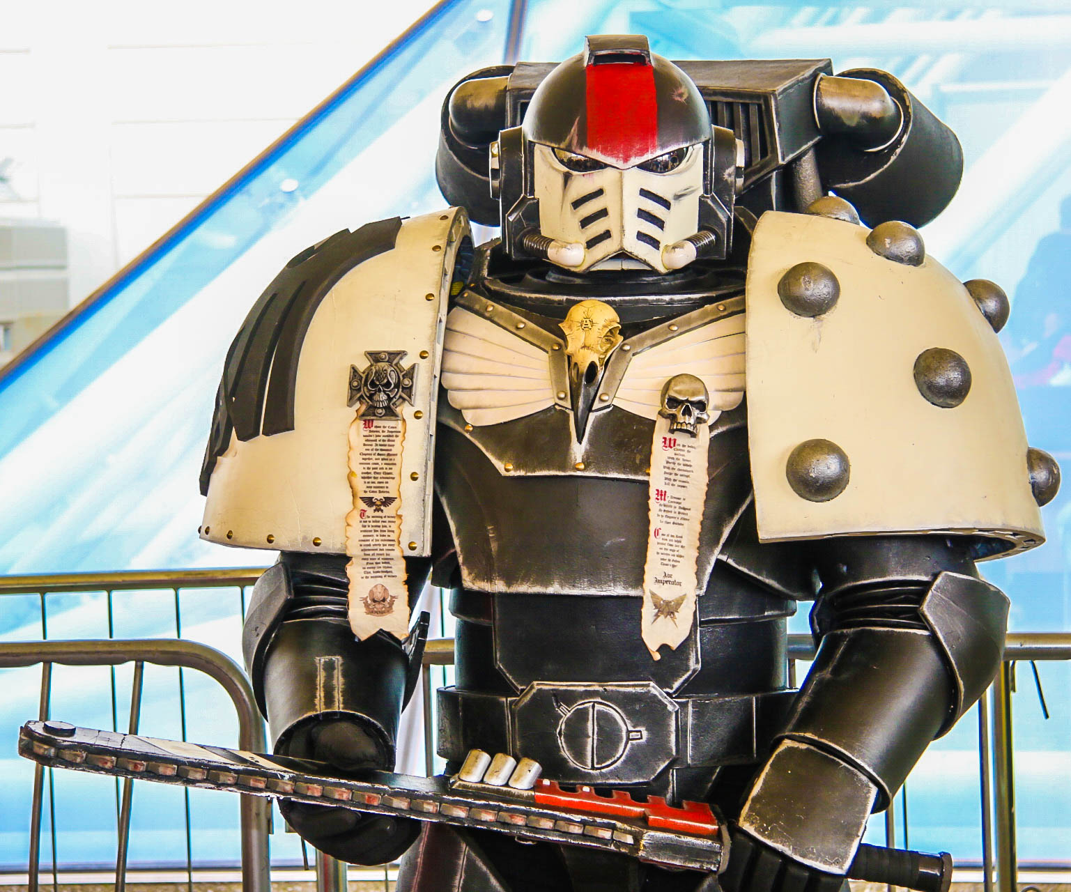 Cosplay at MCM London Comic Con in May 2016.